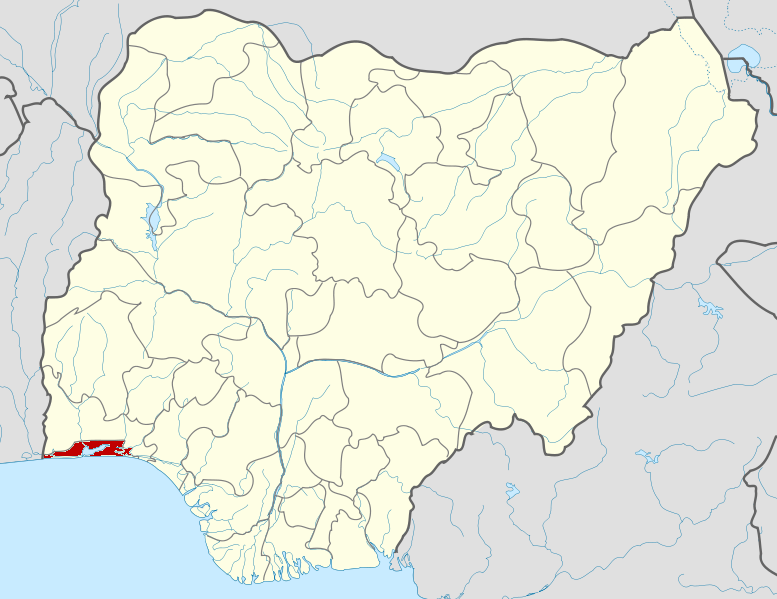 Map locator of Nigeria.